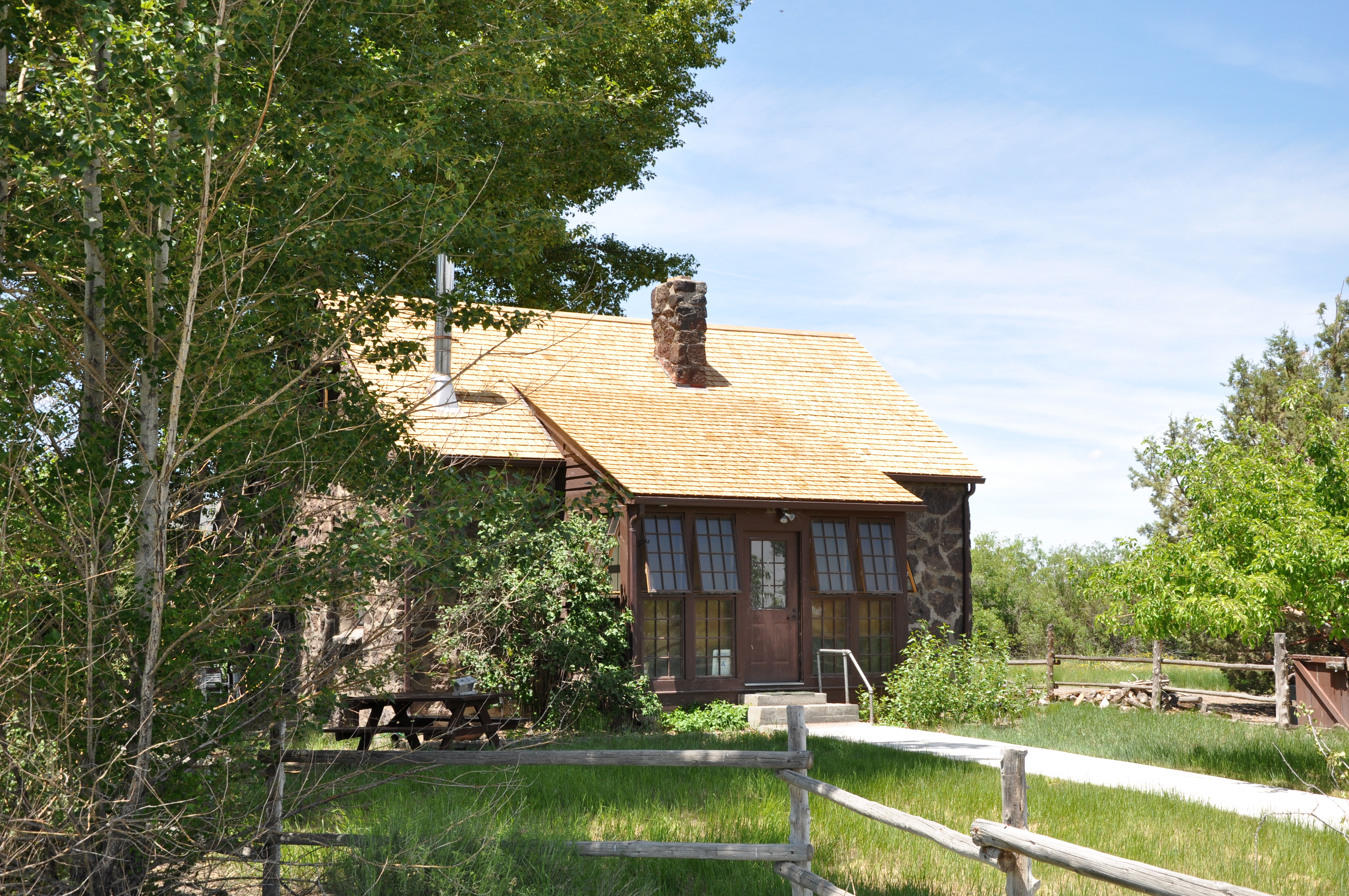 Residence at the U.S. Fish and Wildlife Service headquarters at Hart Mountain National Antelope Refuge in south-central Oregon, United States.